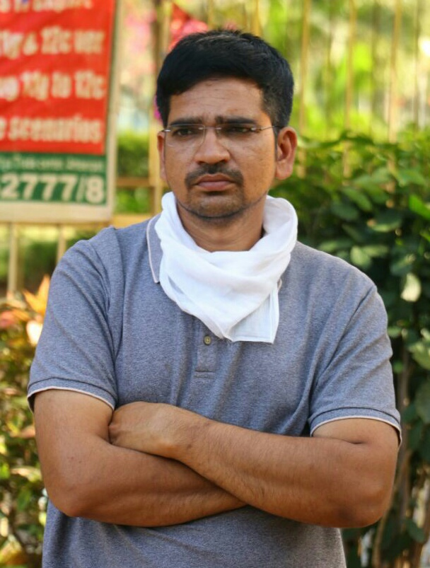 Jayashankarr in Cinivaram, Ravindra Bharathi, Hyderabad